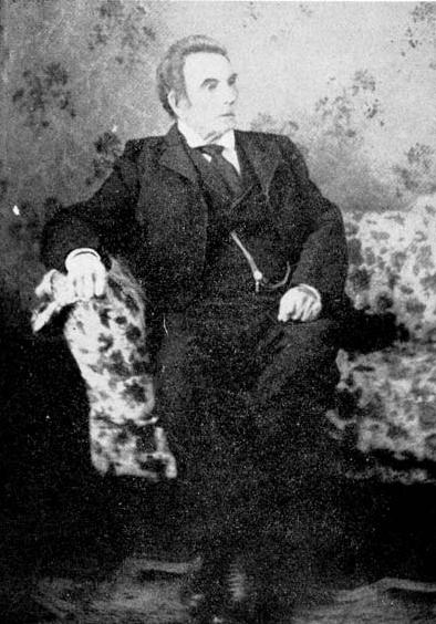 John Sewell (1800-1904), one of the first settlers of Pokemouche, New Brunswick.